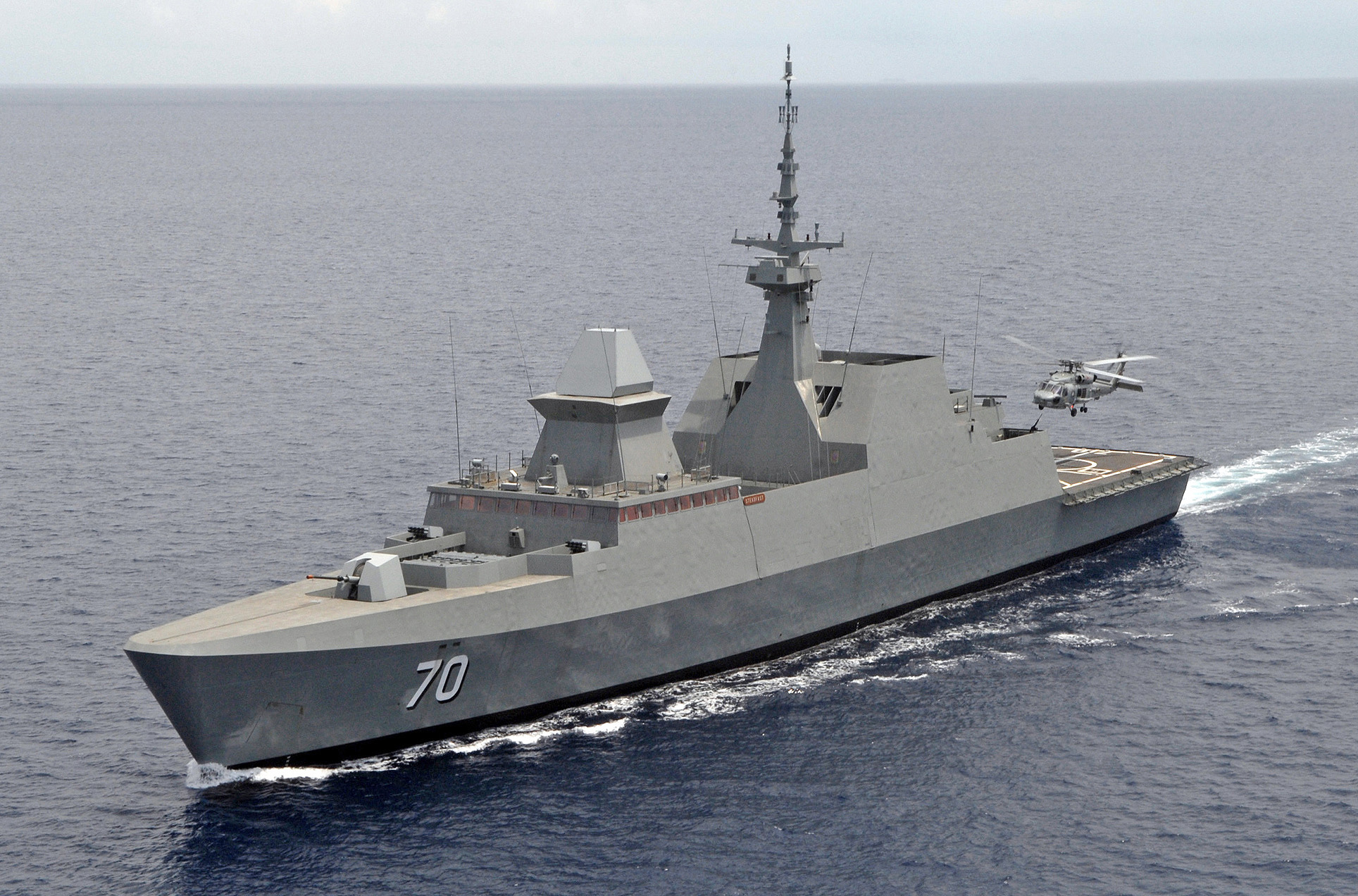 An SH-60B Seahawk assigned to the "Saberhawks" of Helicopter Anti-Submarine Squadron Light (HSL) 47 lands aboard the Singapore guided-missile frigate RSS Steadfast (FFG 70) during flight deck qualifications with the Republic of Singapore Navy on April 15, 2008 in the Pacific Ocean.